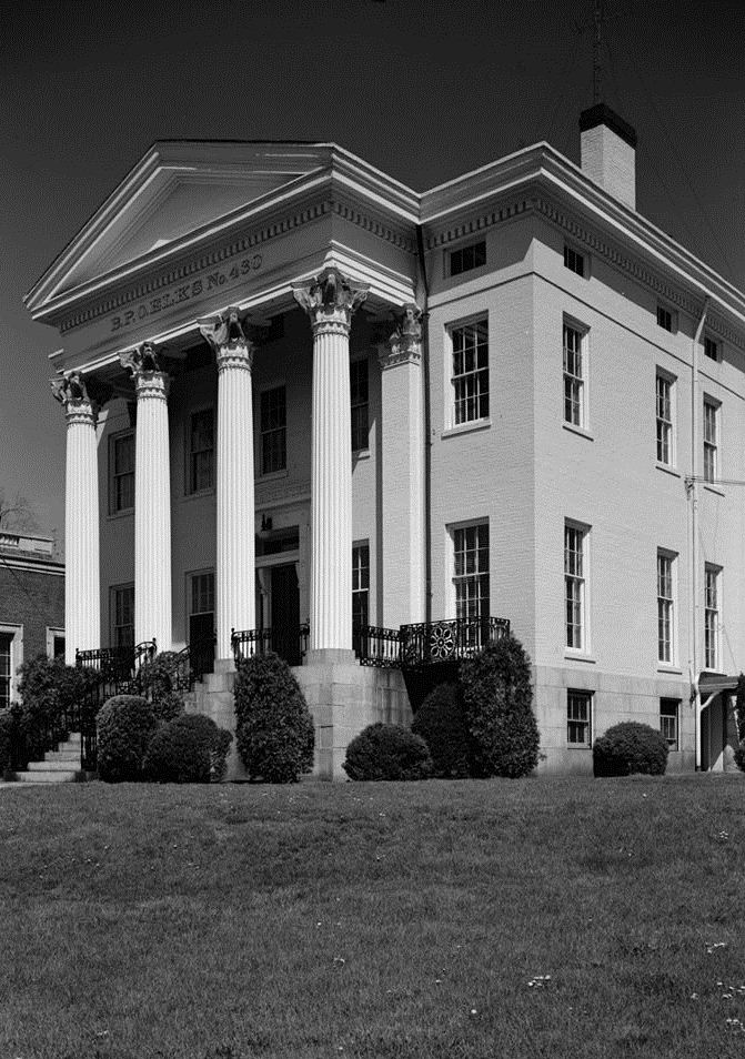 John Fox Slater House, 352 East Main Street, Norwich (New London County, Connecticut) cropped This file comes from the Historic American Buildings Survey (HABS), Historic American Engineering Record (HAER) or Historic American Landscapes Survey (HALS). These are programs of the National Park Service established for the purpose of documenting historic places. Records consist of measured drawings, archival photographs, and written reports. When reusing please credit: Library of Congress, Prints & Photographs Division, CONN,6-NOR,5-2 This tag does not indicate the copyright status of the attached work. A normal copyright tag is still required. See Commons:Licensing. This work is in the public domain in the United States because it is a work prepared by an officer or employee of the United States Government as part of that person’s official duties under the terms of Title 17, Chapter 1, Section 105 of the US Code. Note: This only applies to original works of the Federal Government and not to the work of any individual U.S. state, territory, commonwealth, county, municipality, or any other subdivision. This template also does not apply to postage stamp designs published by the United States Postal Service since 1978. (See § 313.6(C)(1) of Compendium of U.S. Copyright Office Practices). It also does not apply to certain US coins; see The US Mint Terms of Use. This file has been identified as being free of known restrictions under copyright law, including all related and neighboring rights. Object location41° 31′ 26″ N, 72° 04′ 38″ W